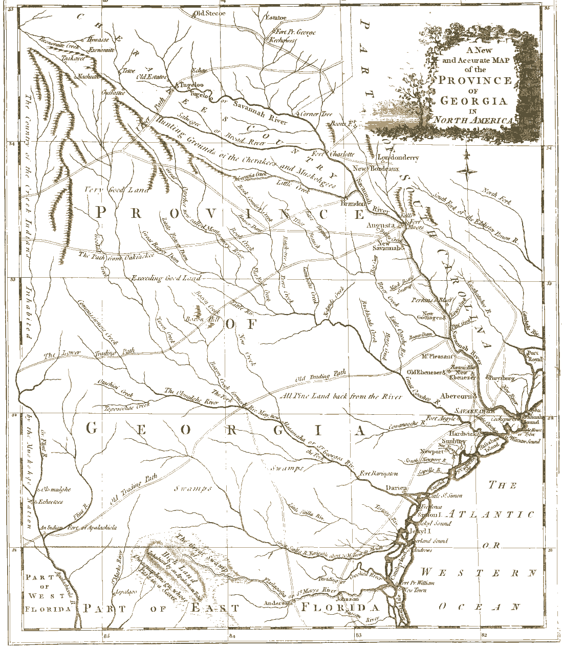 Described as "An anonymously prepared map published in The Universal Magazine in 1779 (Image 7)" in Kennesaw Mountain National Battlefield Park CULTURAL OVERVIEW By Robert Hellman (2003)[1]